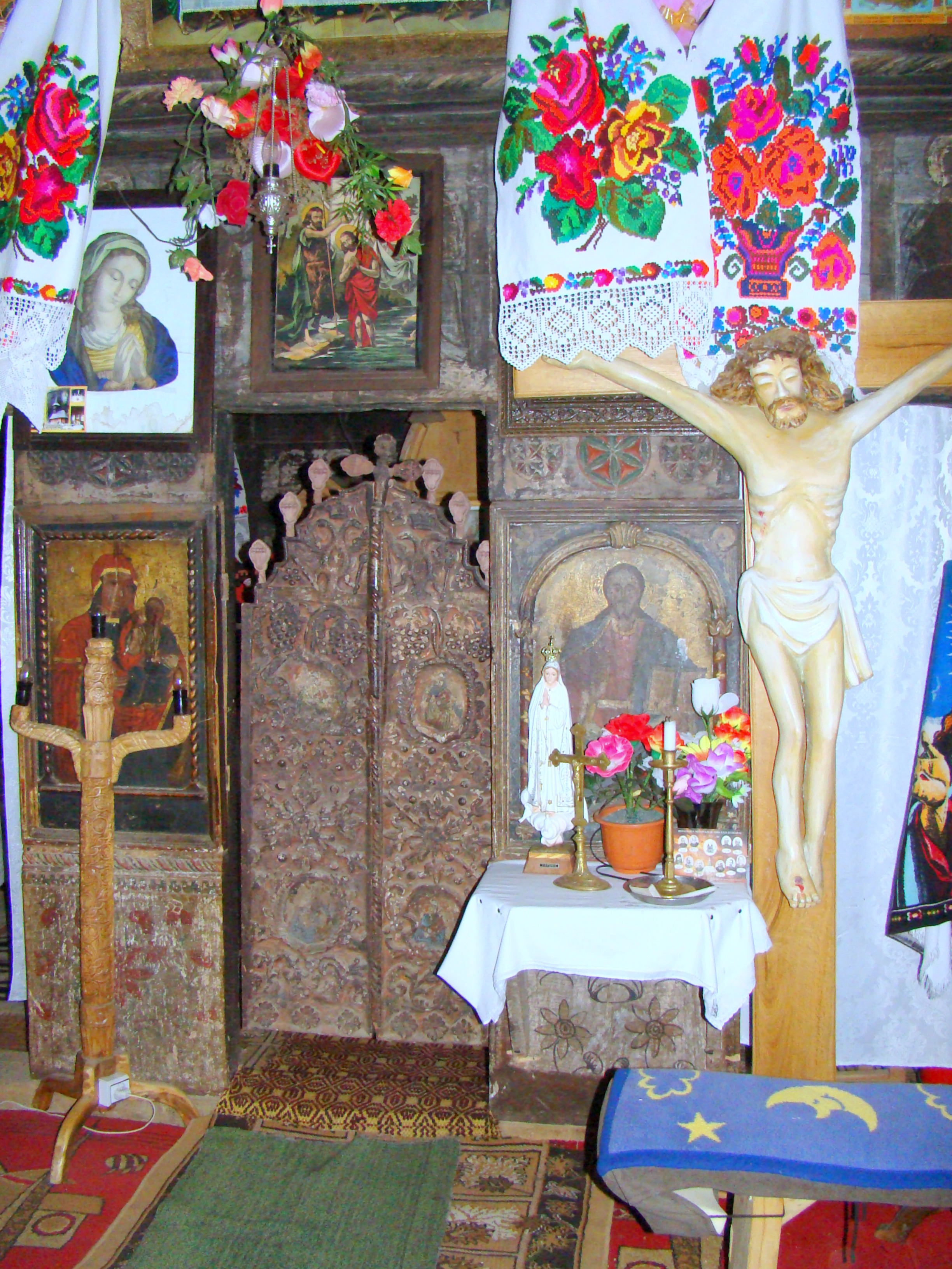 Wooden church in Lăpuş, Maramureş